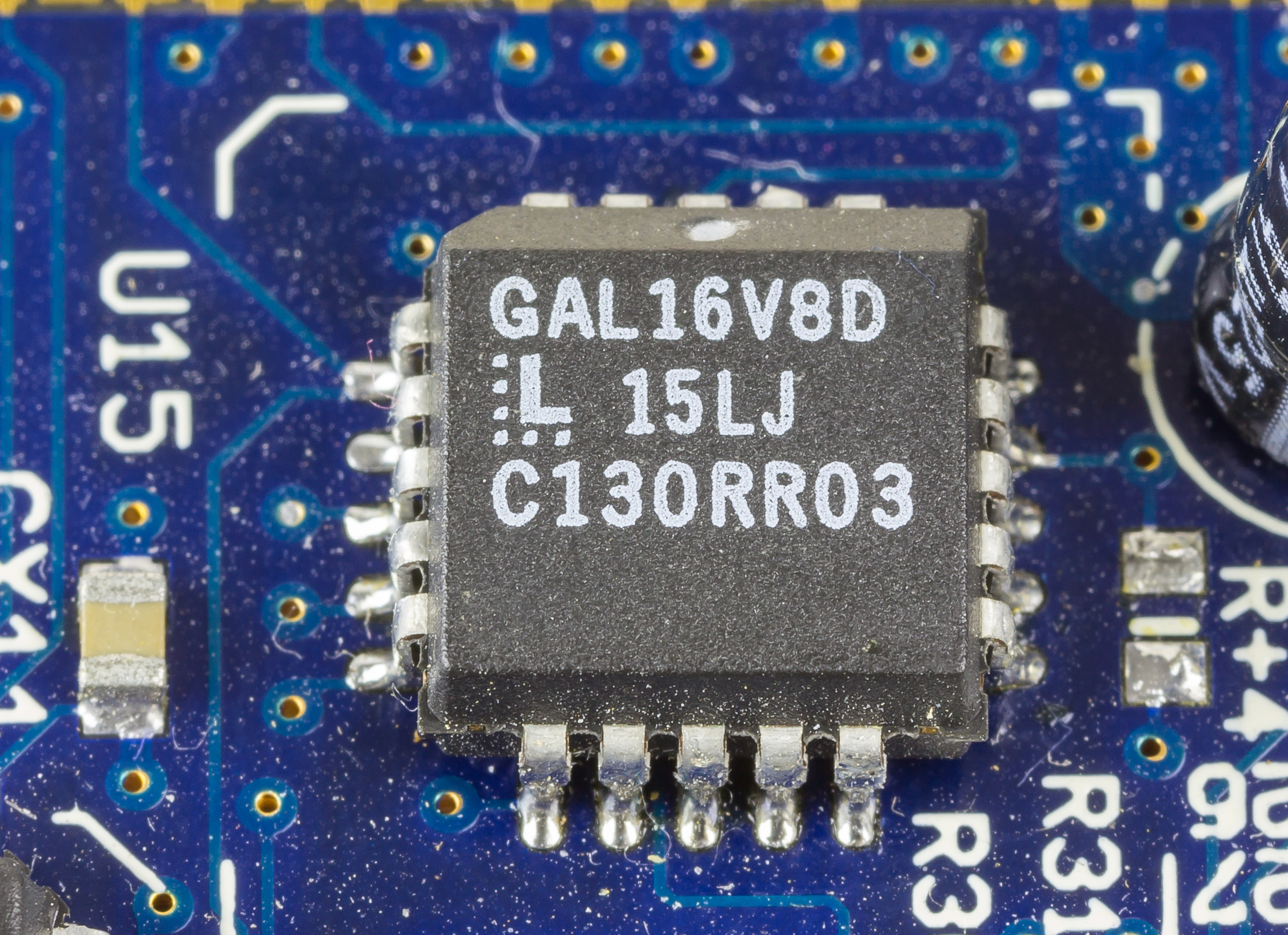 HST Saphir 2155 - Lattice GAL16V8D-15LJ (High Performance E²CMOS PLD Generic Array Logic)